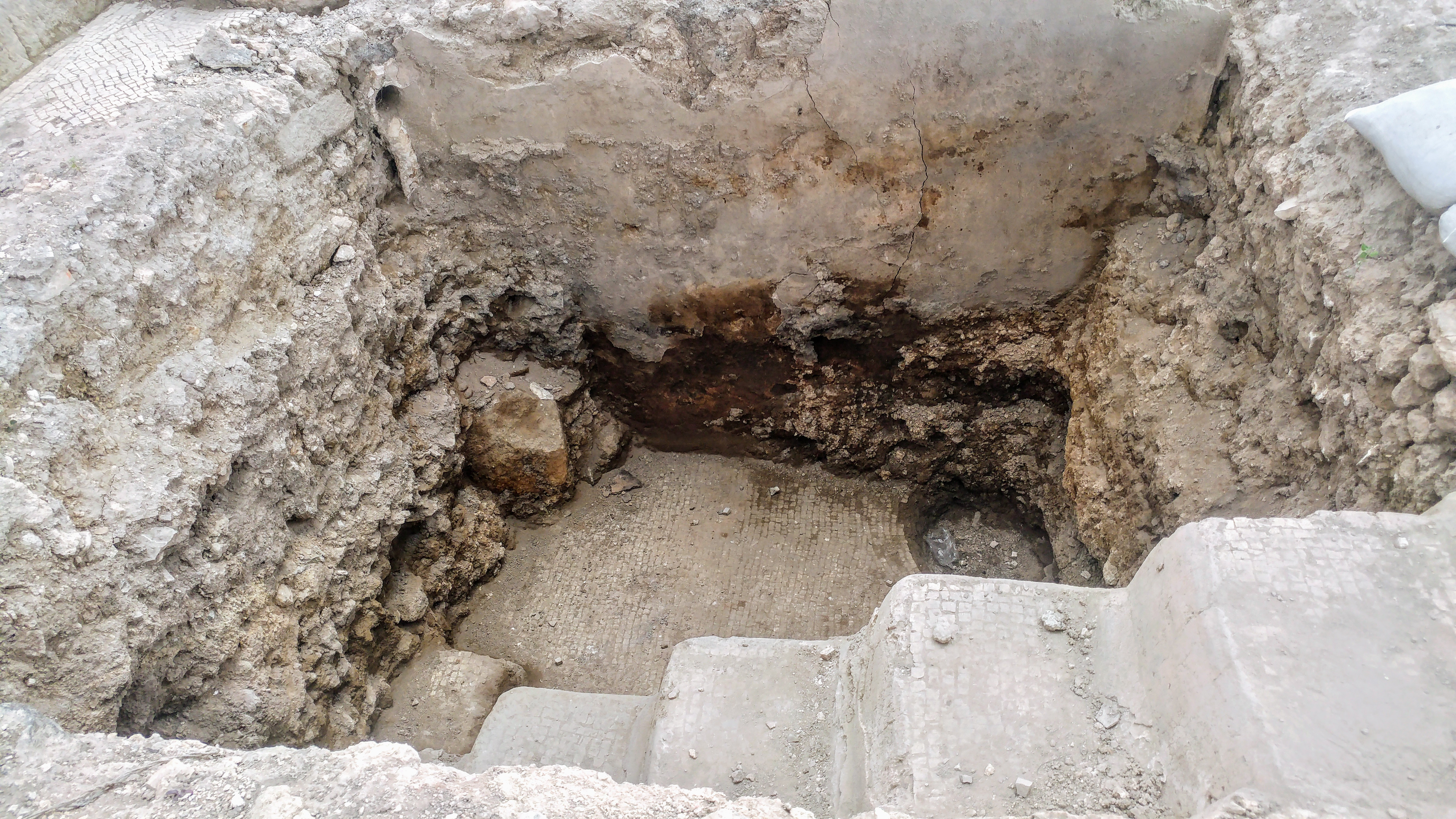 A mikveh in ancient Usha, Israel.